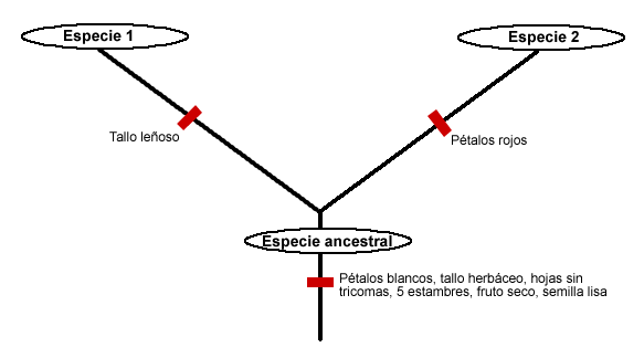 Simple cladogram